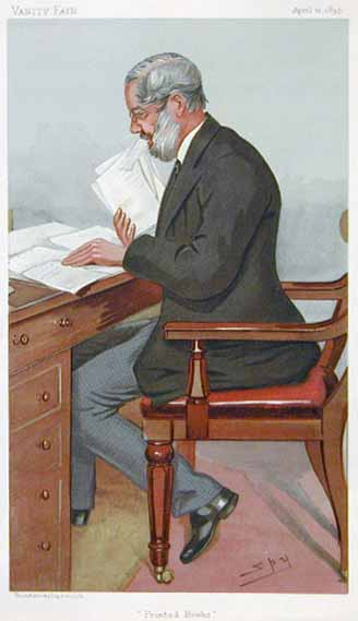 Caricature of Dr Richard Garnett CB. Caption read "Printed Books".